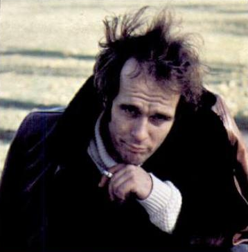 Trade ad for Tim Hardin's album Suite for Susan Moore and Damion: We Are One, One, All in One. To better adapt it to his respective Wikipedia article, the ad was cropped and cleaned in a graphics editing program. The original can be viewed at the source below.